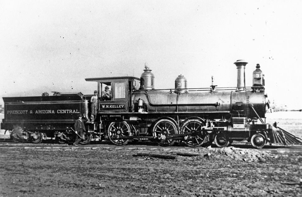 Present day Sierra 3